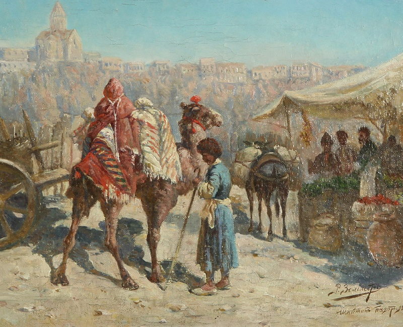 Richard Zommer. Sheytan-bazaar in Tiflis